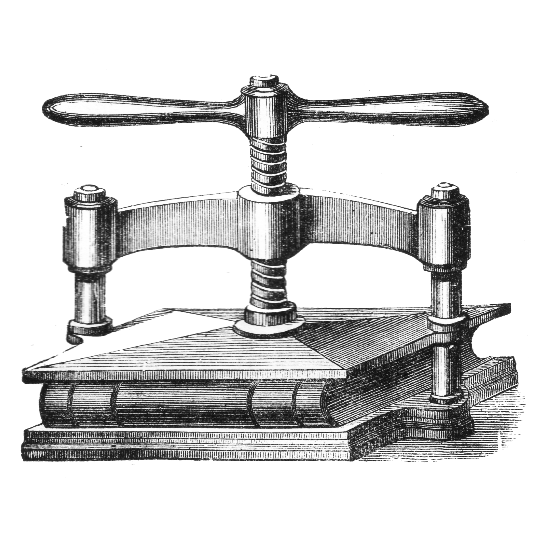 "Opfindelsernes Bog" (Book of inventions) 1878 by André Lütken, Ill. 17.